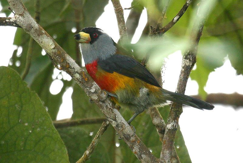 A Toucan Barbet (Semnornis ramphastinus)